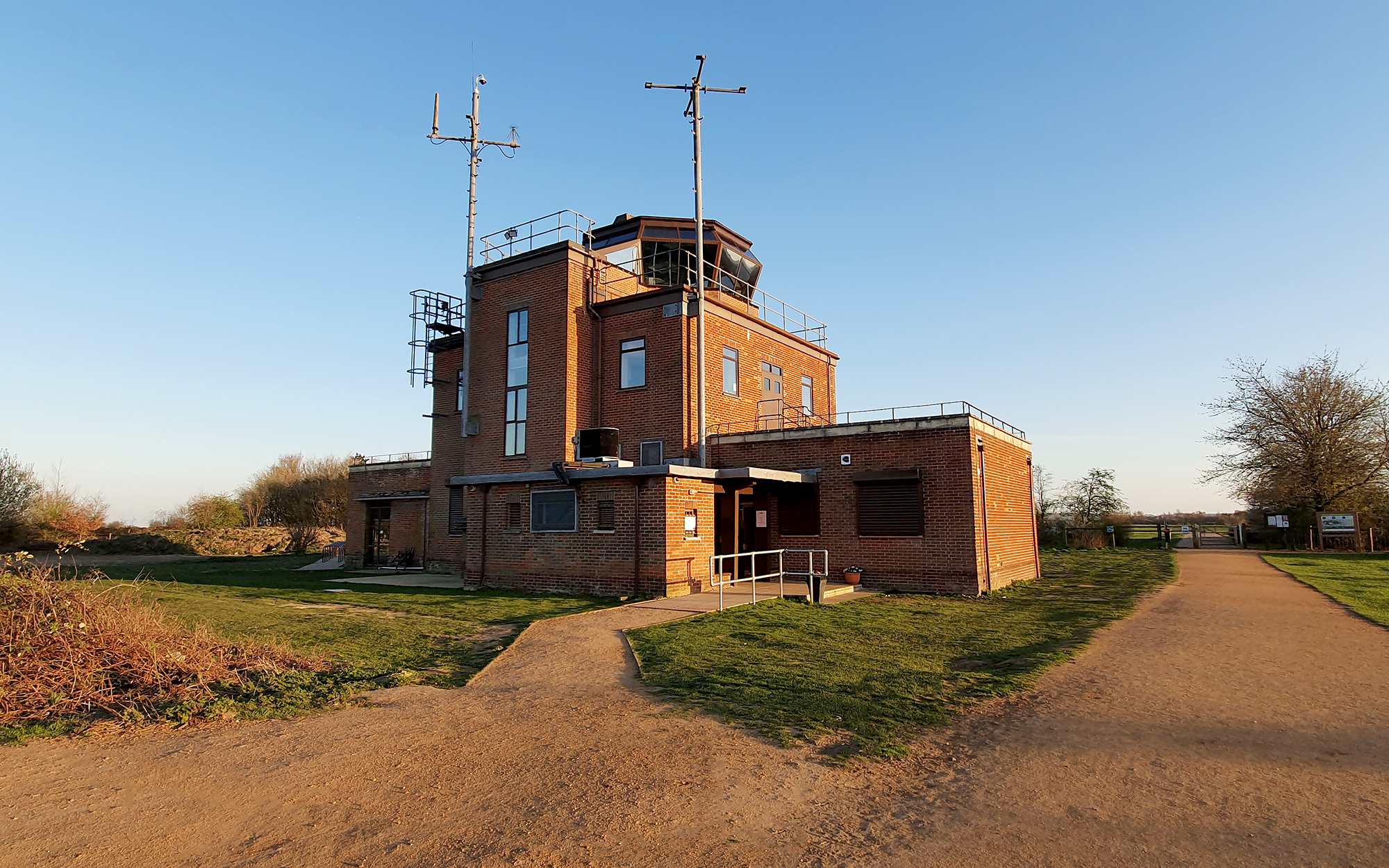 Image of Greenham Common Control Tower in 2019, after refurbishment and opening as a visitor centre and cafe